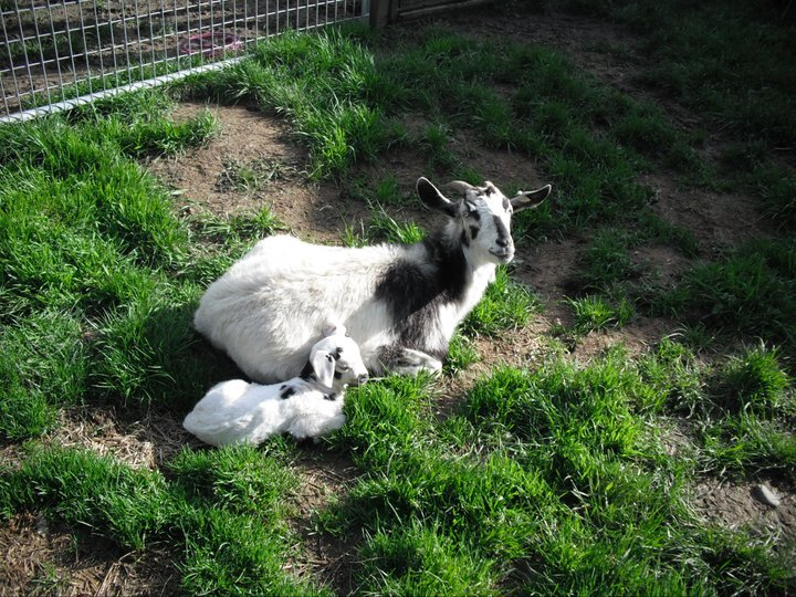 Kiko doe with kid in California, USA 2011